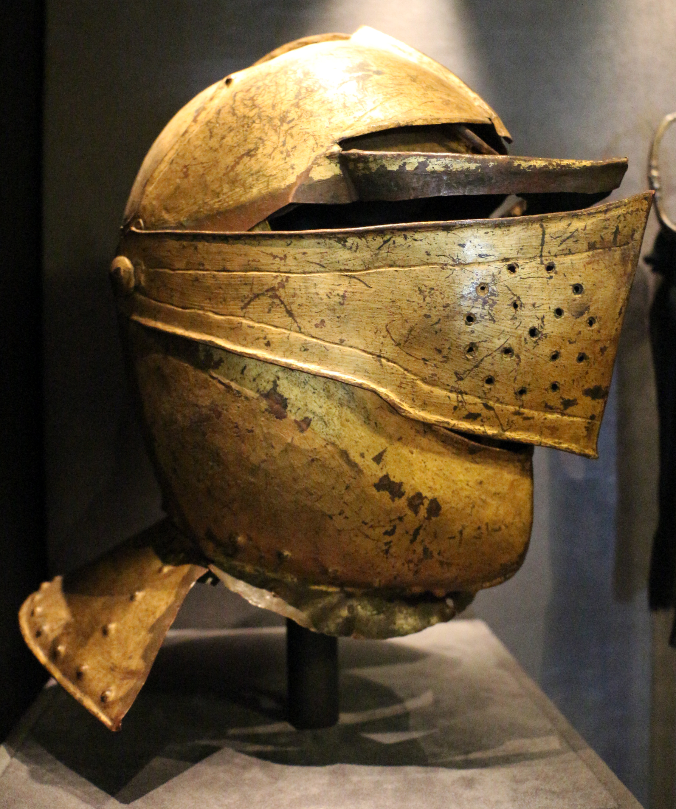 Miscellany in the National Museum of Finland